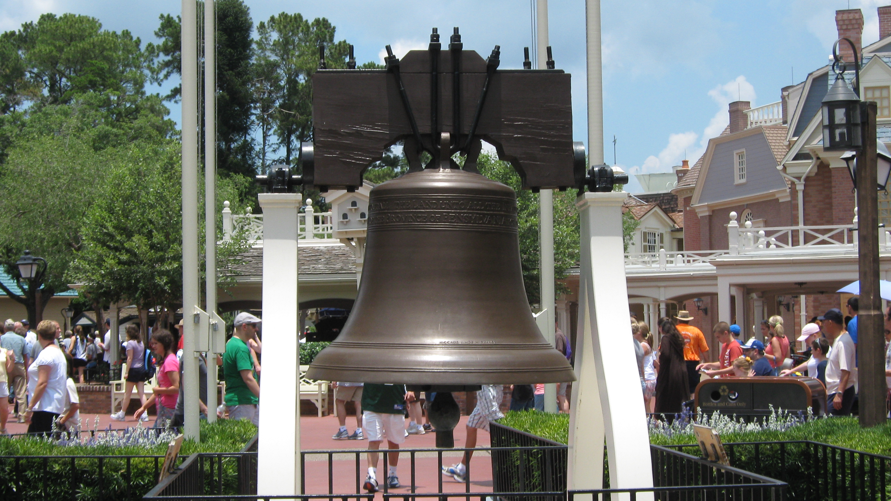 Liberty Bell in Liberty Square in Magic Kingdom at Walt Disney World